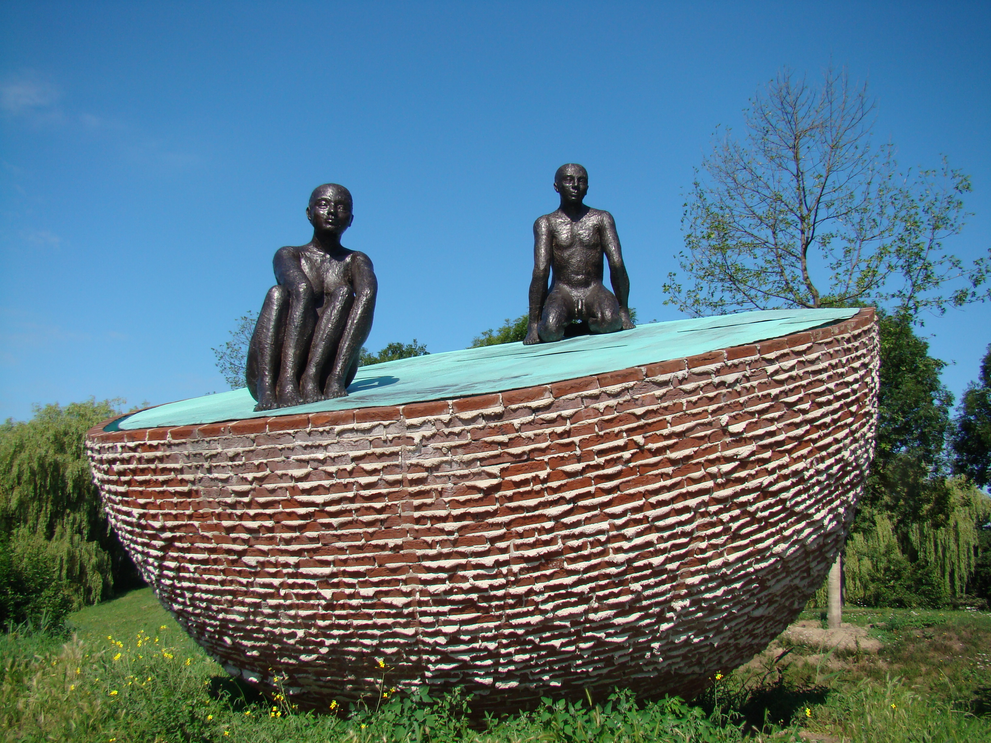 Westerpark, cultuurpark: sculpture Bolbewoners (2003) by Herman Makkink